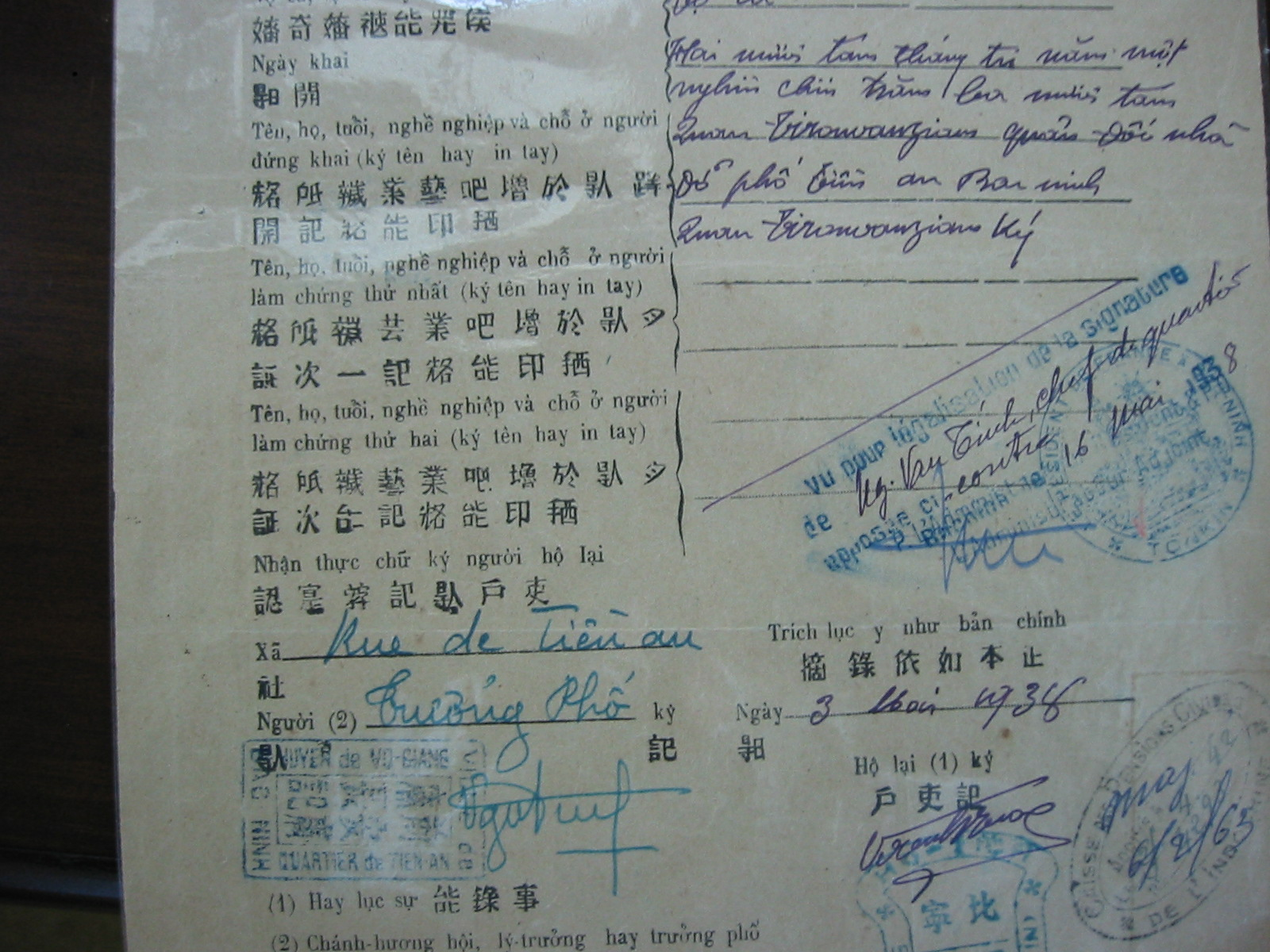 1938 Vietnamese Birth Certificate in Nôm and Romanized Vietnamese